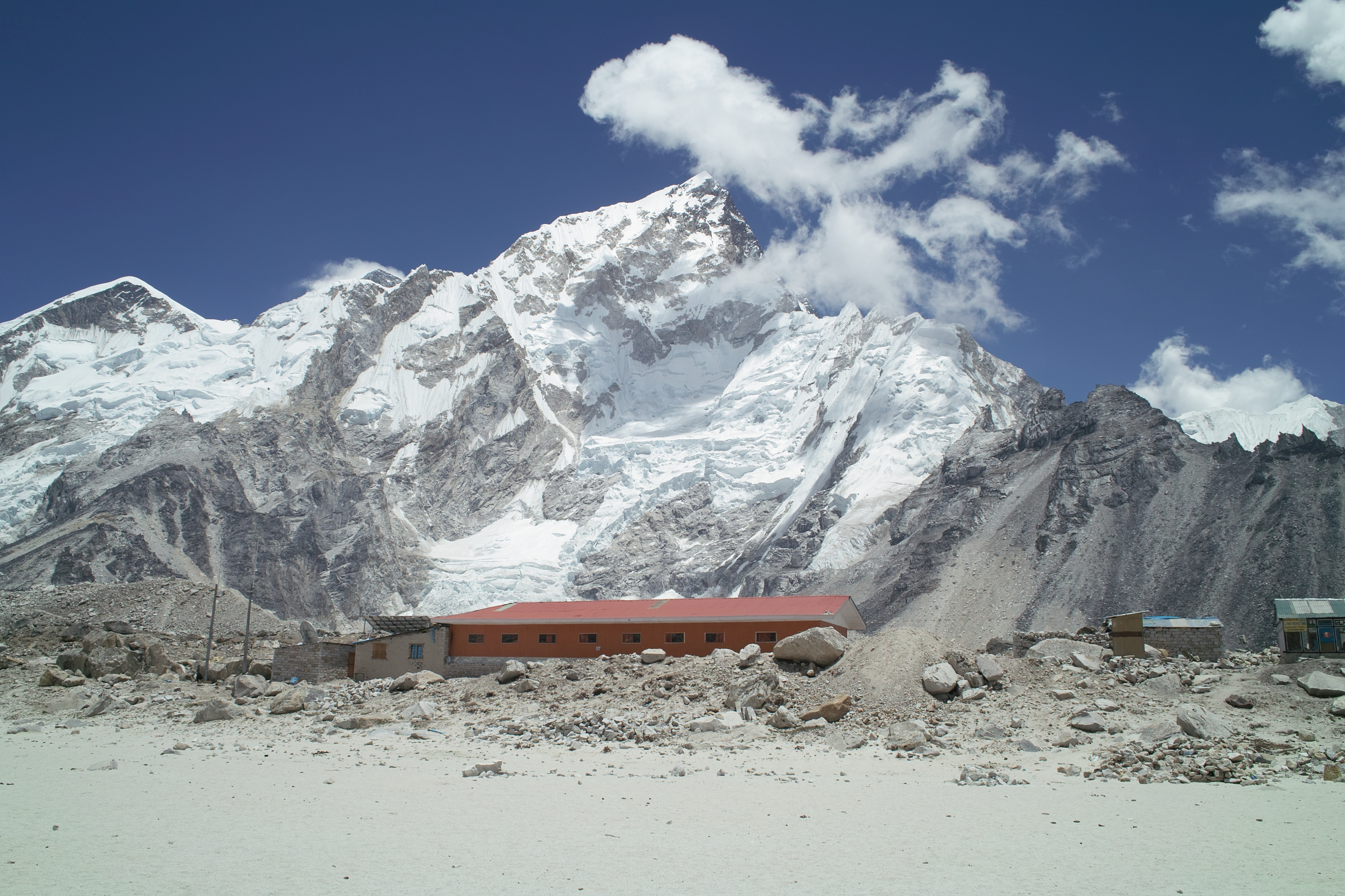 Gorak Shep, and Nuptse west face (summit of Mt. Everest is also visible)